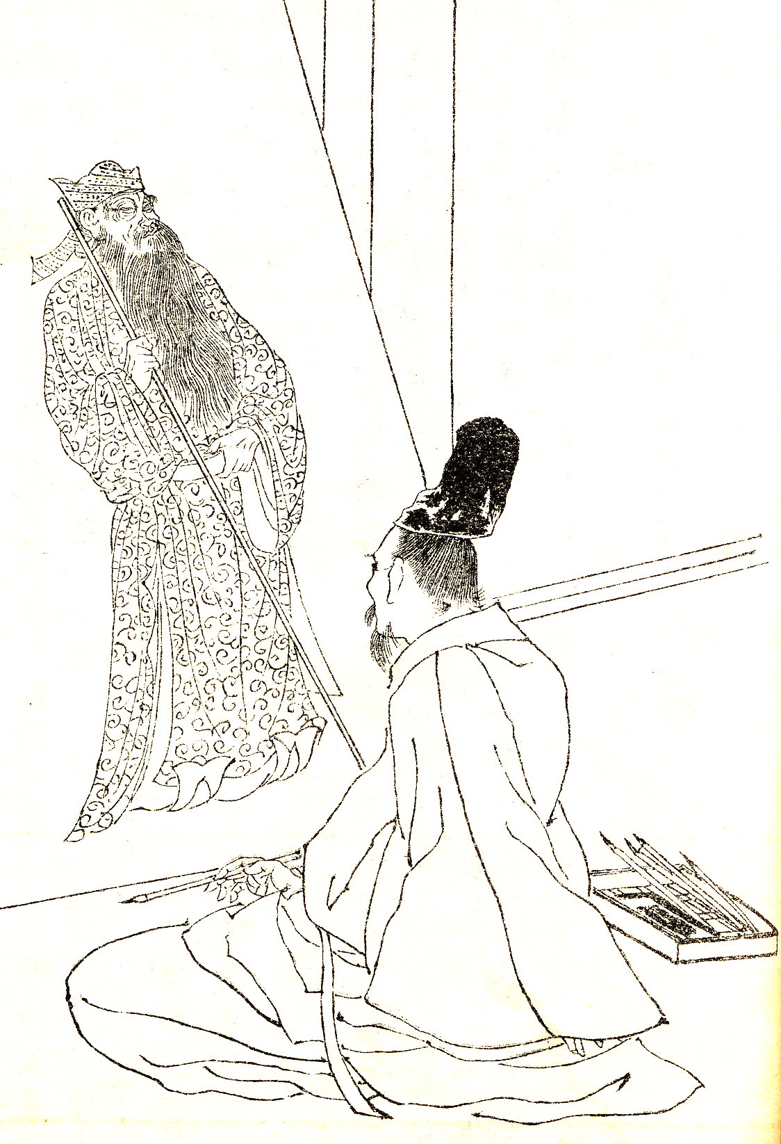 Kikuchi Yōsai, Large Spirit of Kaneoka.